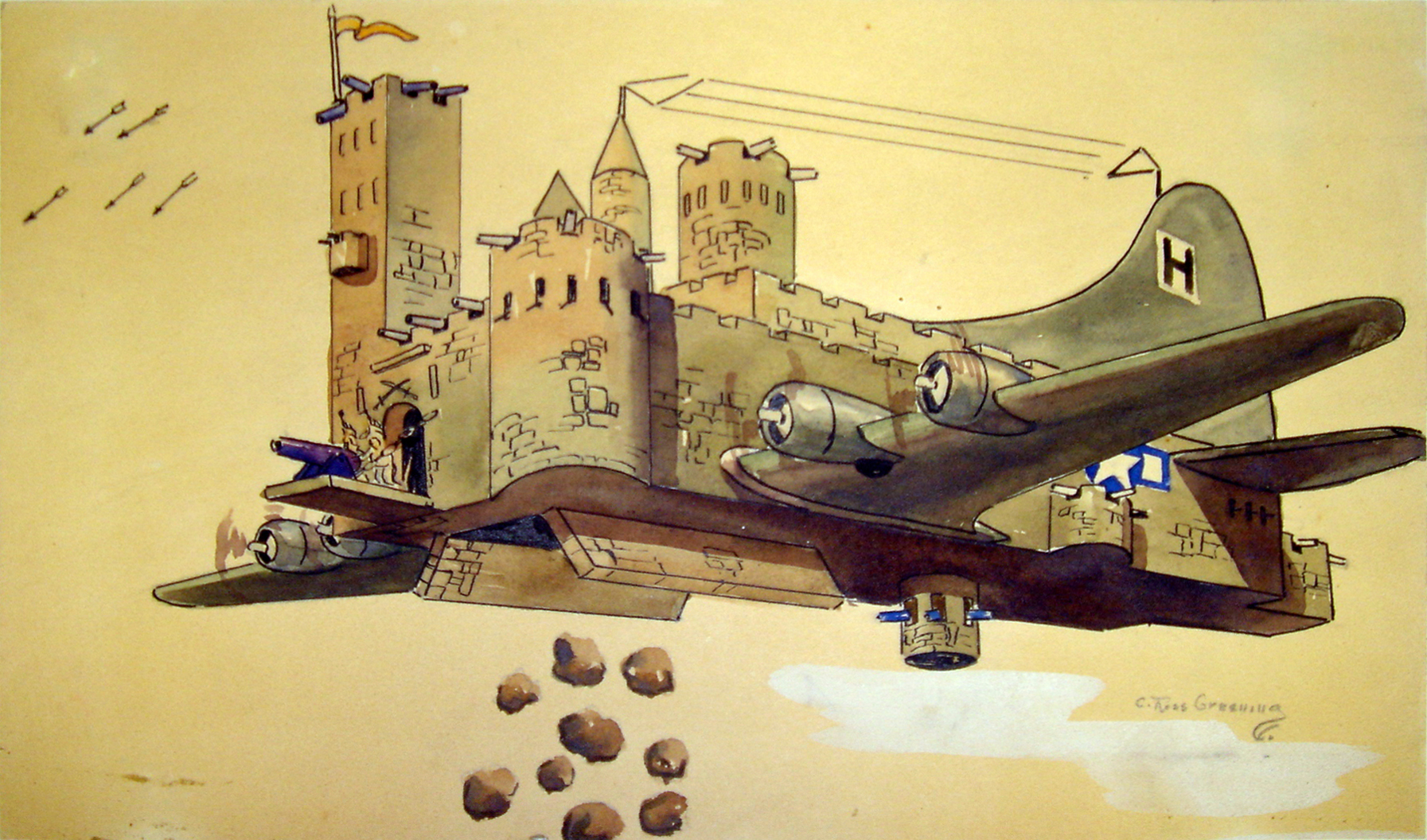 The B-17's capacity to repel enemy attacks and still inflict heavy damage to the German war machine and production centers is imaginatively rendered by C.R. Greening in this colorful caricature. Completed by Lt. Col. C. Ross Greening while prisoner at Stalag Luft I, Barth Germany in 1944-1945, this work is part of a collection of artwork that was published after the war in his book titled "Not As Briefed."